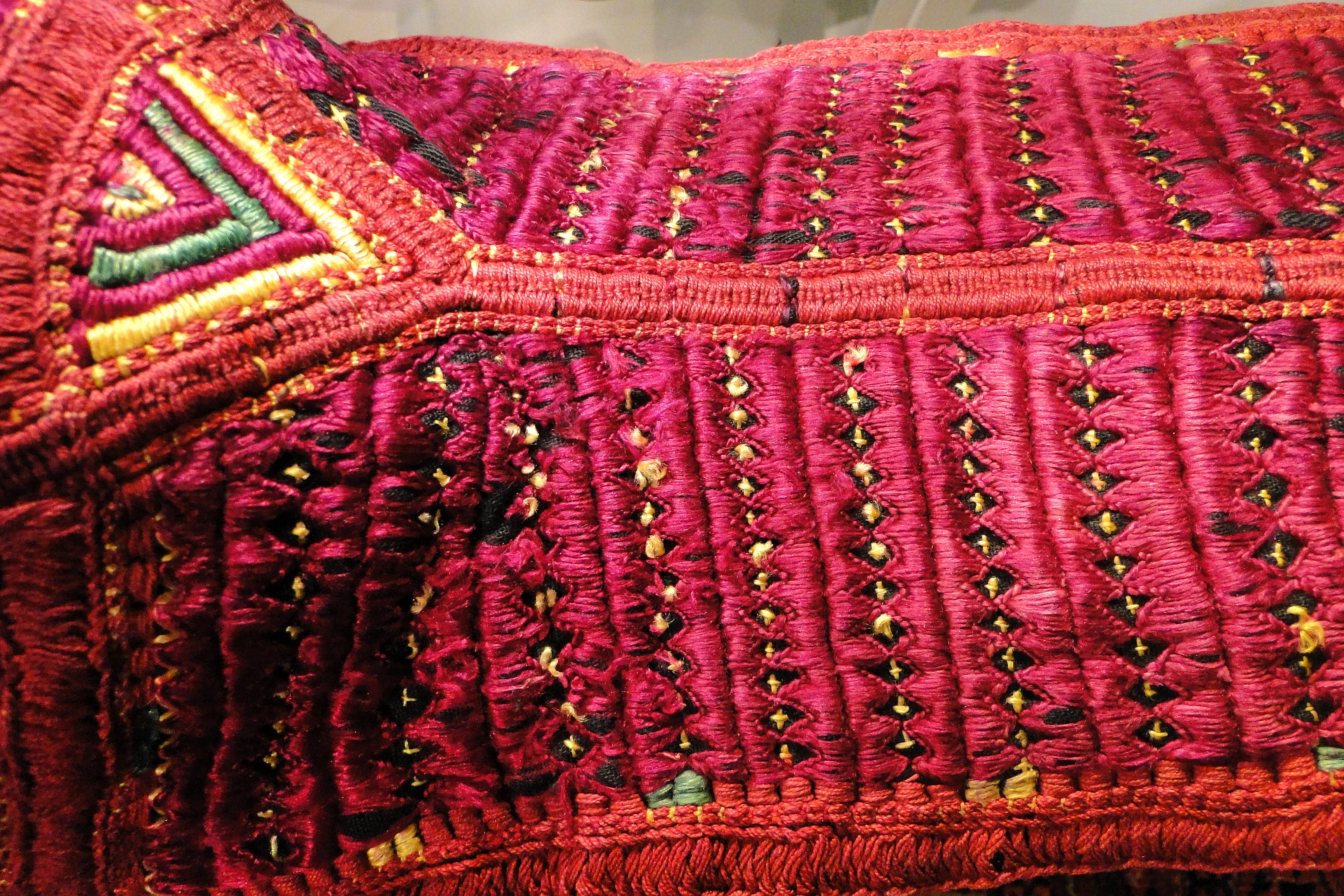 Andean weaving from South America, exhibit at the Museum of Anthropology, University of British Columbia, in Vancouver, Canada